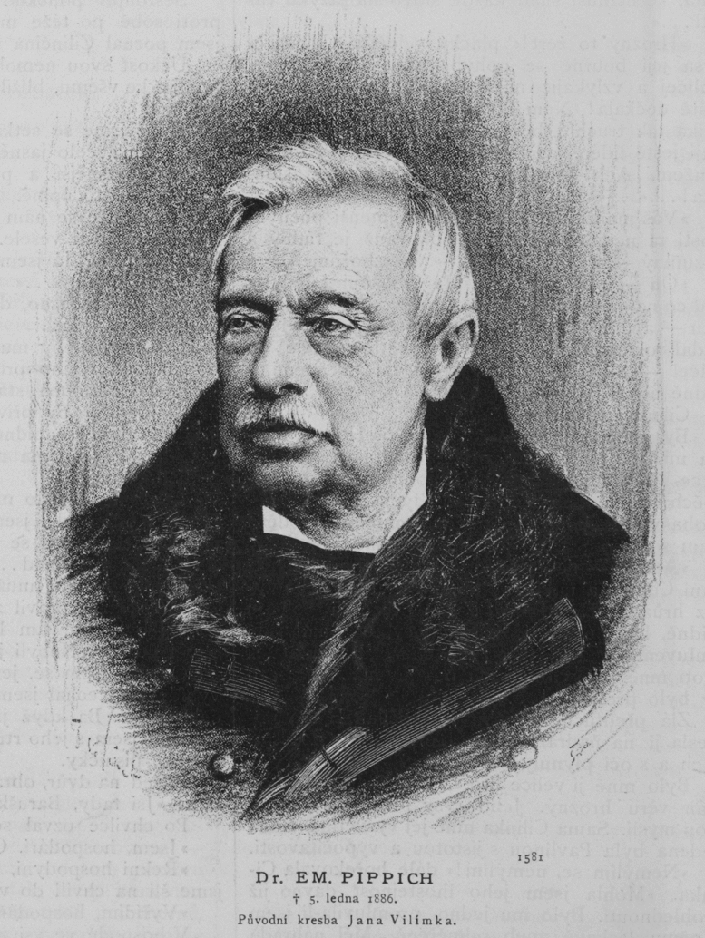 Portrait of Emanuel Pippich (1812-1886), Czech lawyer and organizer of culture in Rakovník and Chrudim